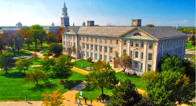 Wide shot of UB's Crosby Hall with Hayes Hall in the background.